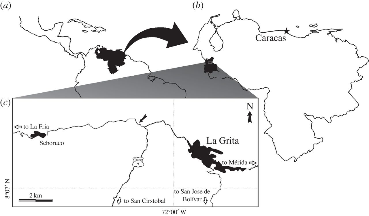 Maps of (a) Venezuela within northern South and Central America, (b) Táchira State within Venezuela and (c) La Grita area indicating the location of the type locality of Tachiraptor admirabilis (black arrow). Dash-dotted lines denote main roads; thin dotted lines, paved secondary roads.